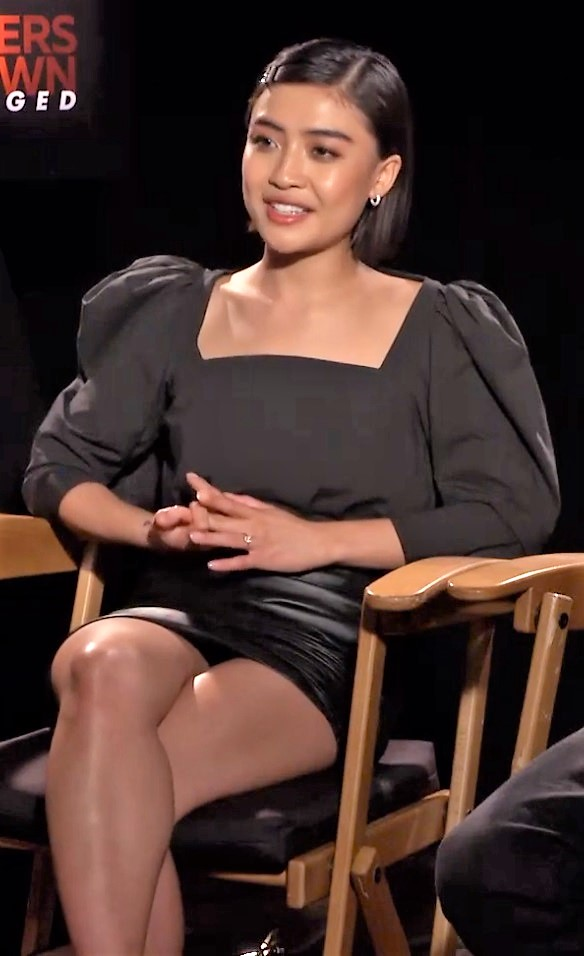 47 Meters Down: Uncaged 🦈 Brianne Tju & cast talk pros and cons of filming underwater with sharks by Dulce Osuna